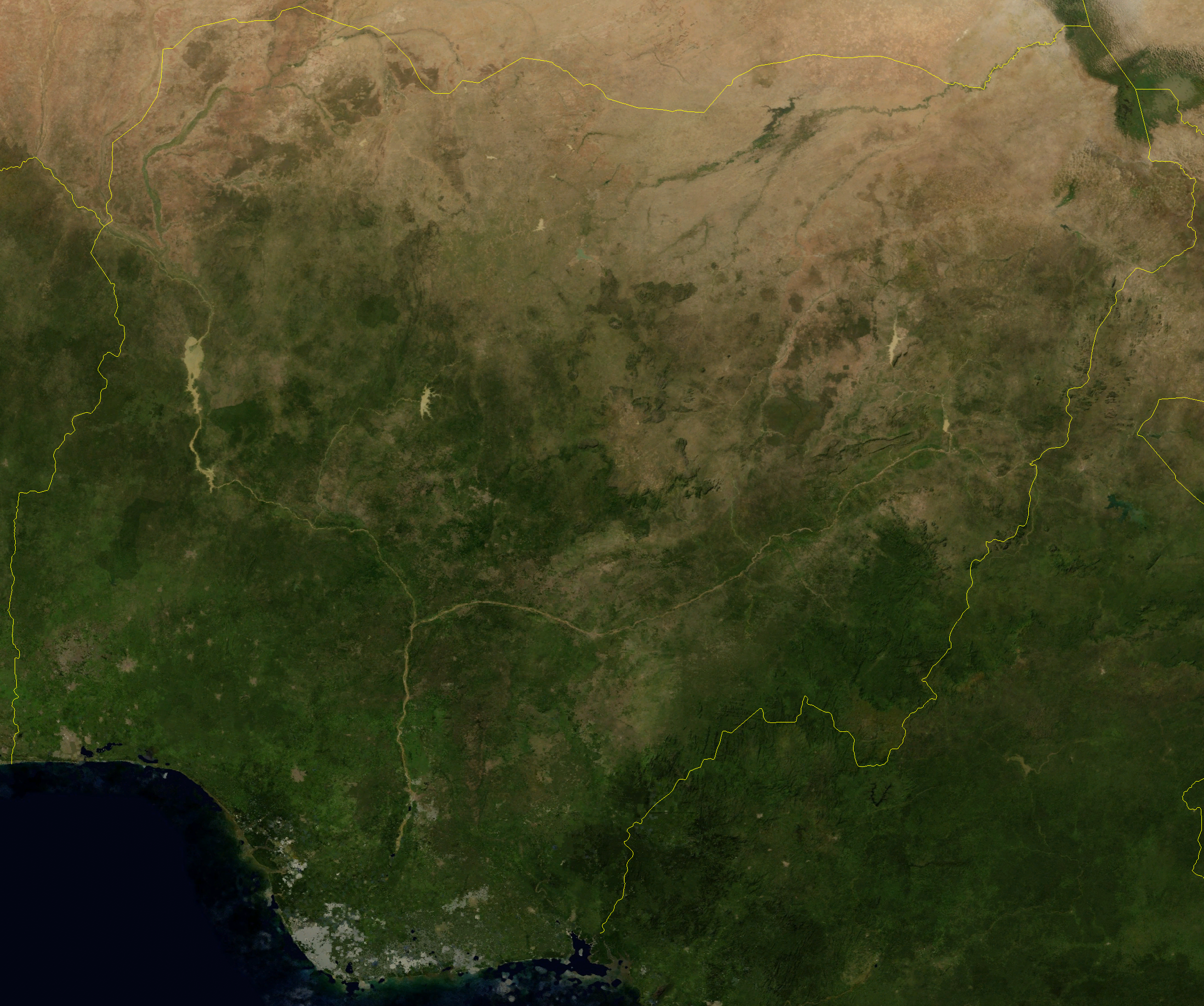 Satellite image of Nigeria in October 2004.